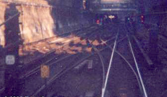 Double Crossover on the BMT Brighton Line approaching the Prospect Park station.